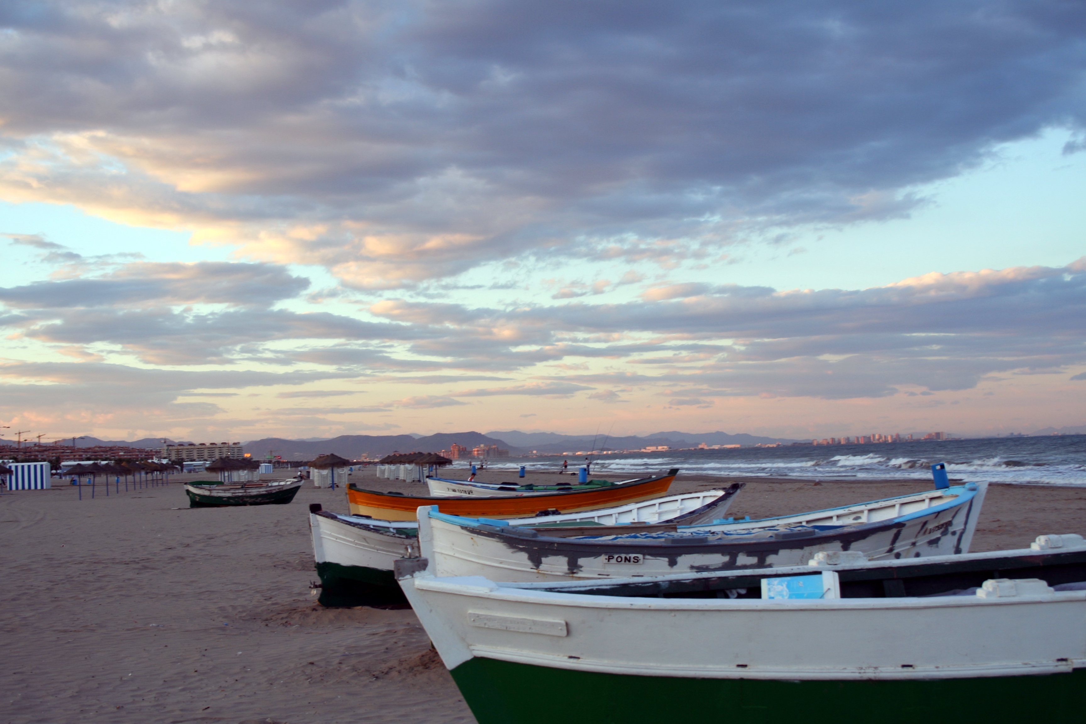 Playa de El Cabanyal or de las Arenas (a beach) in Valencia (Spain).